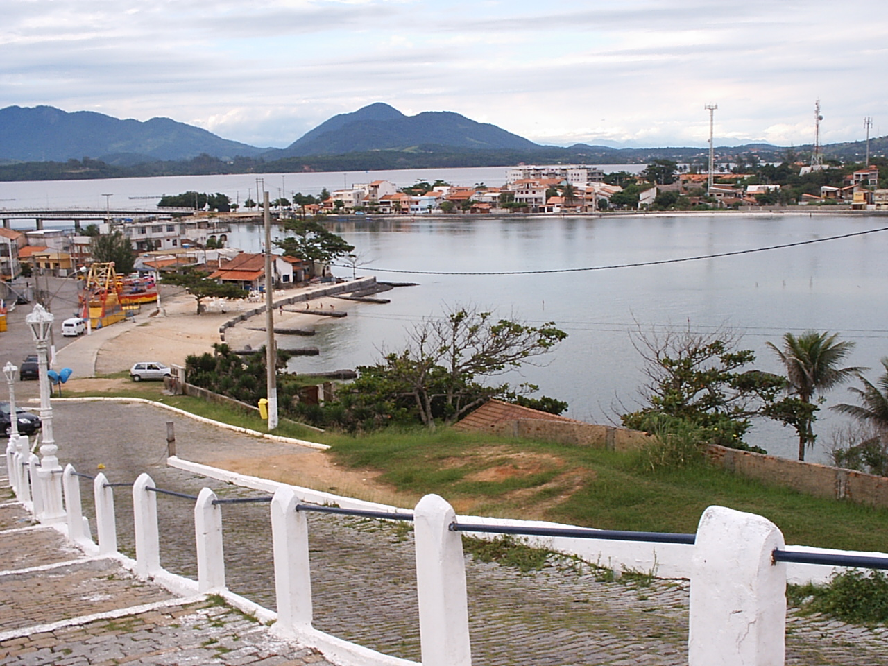 Saquarema-RJ, Brazil. View of the lake